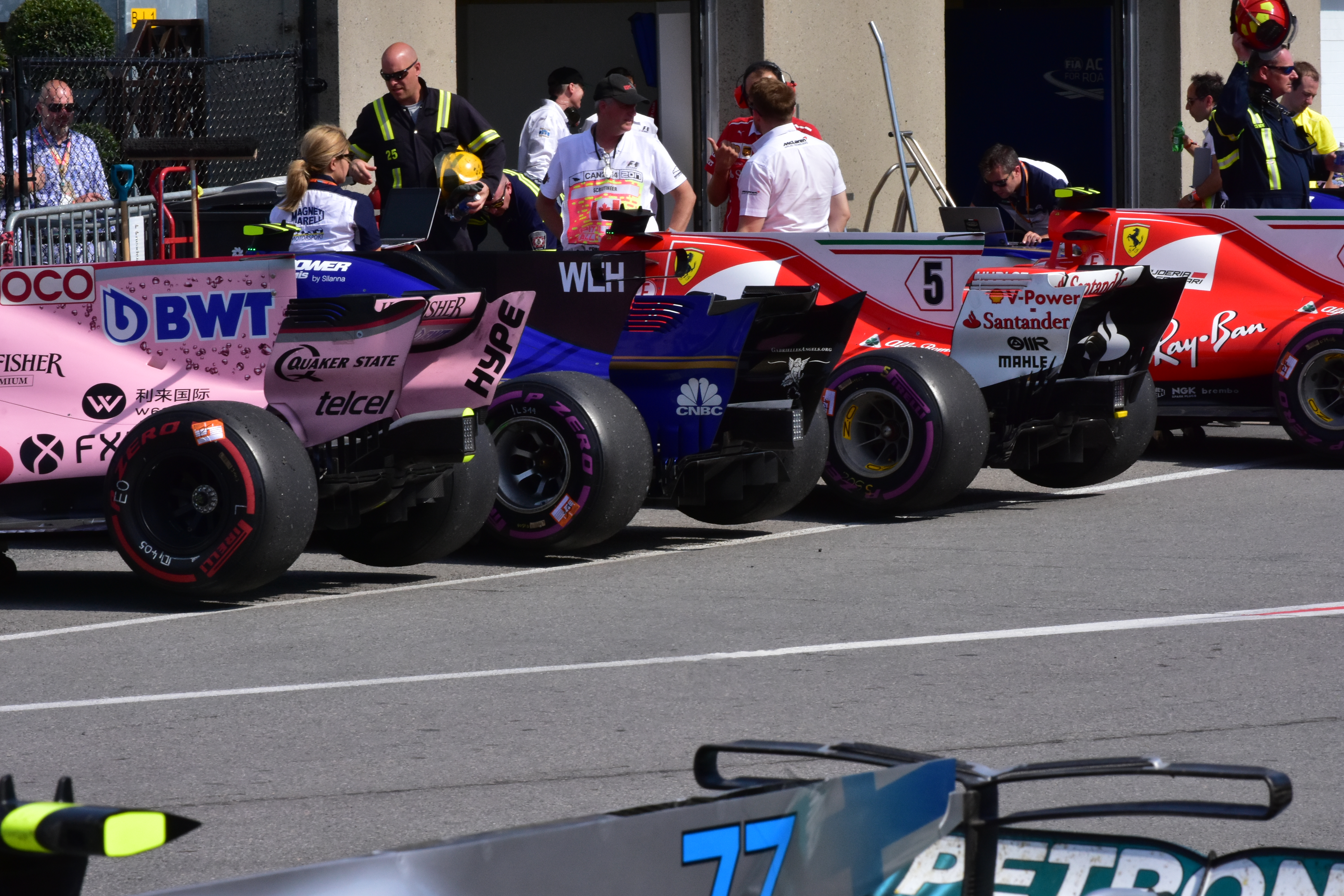 After the race, at scrutineering.